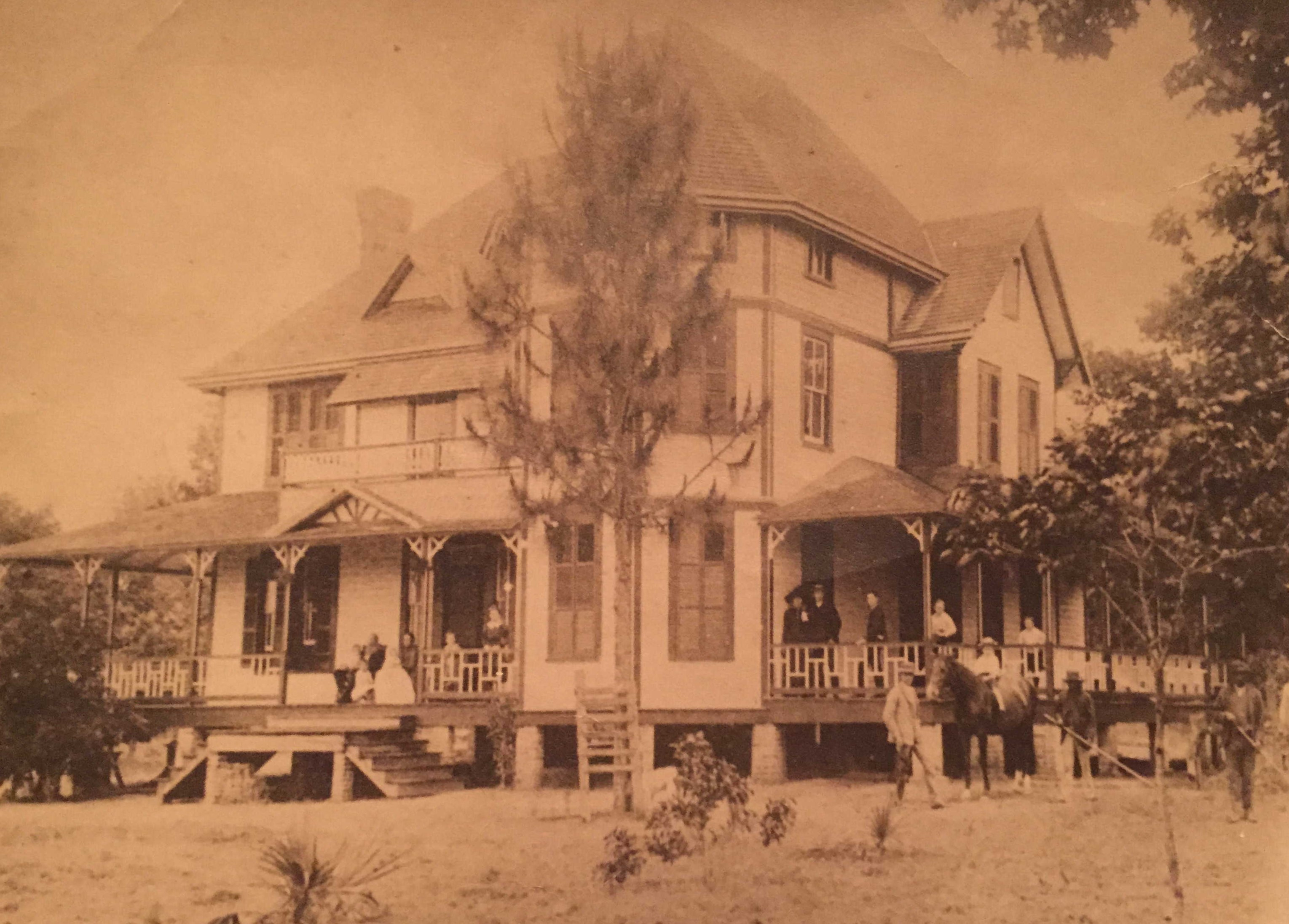 The Moody homestead in Ocala, Florida. Dated to 1888.